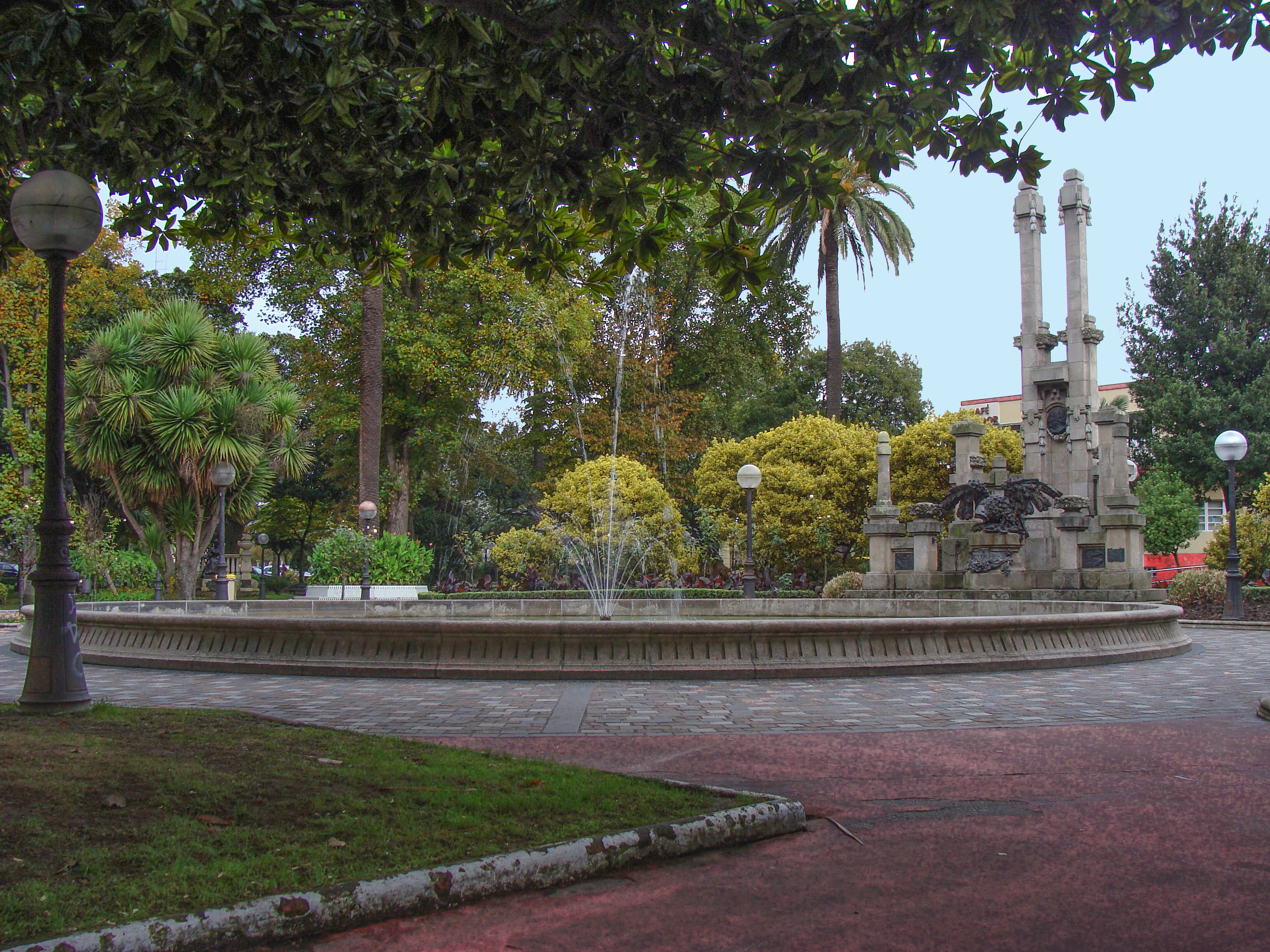 Méndez Núñez's Gardens in Corunna, Galicia, Spain